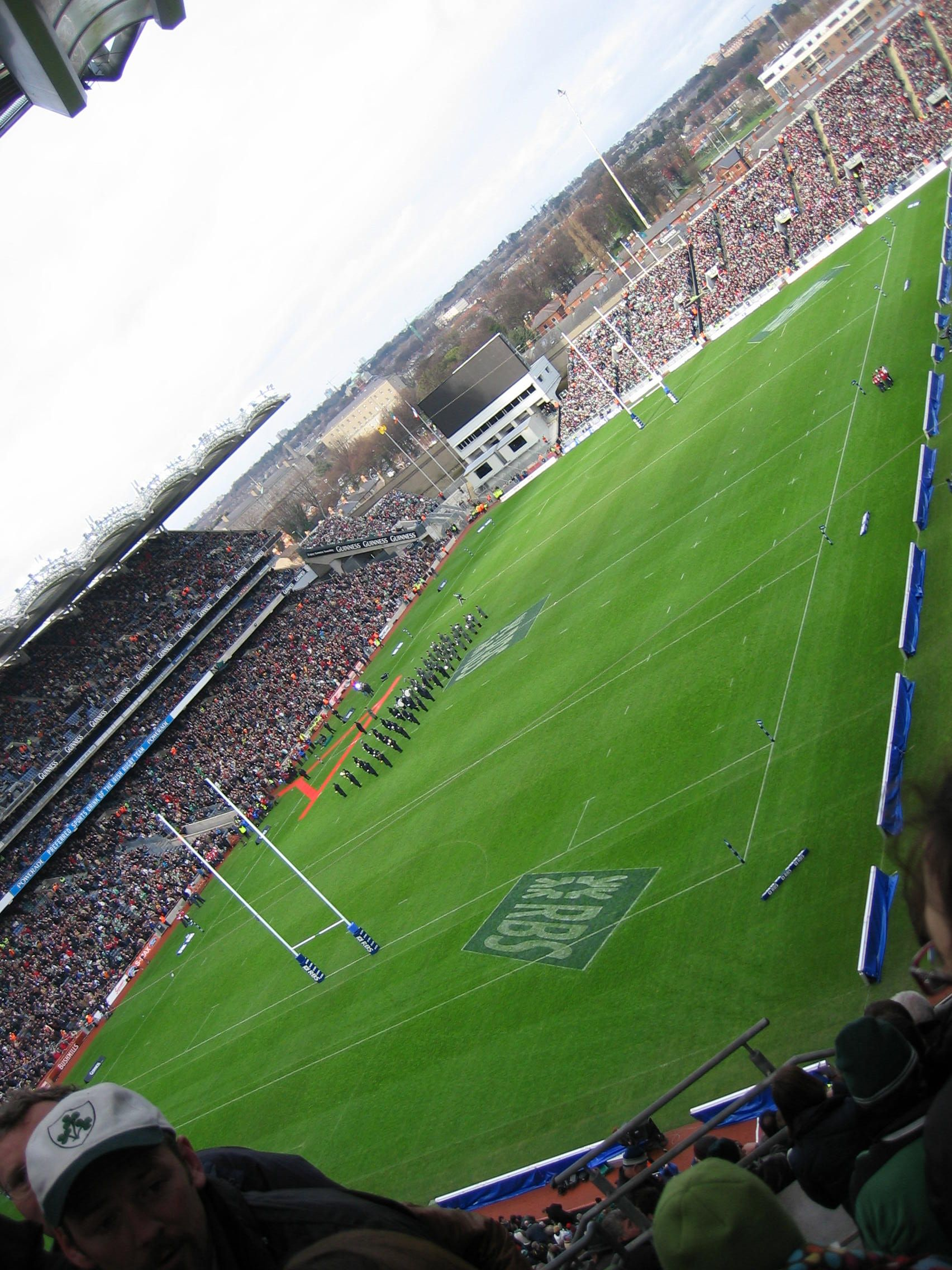 Rugby ptich laid out on the larger Gaelic football pitch at Croke Park for the 2007 RBS Six Nations game between Ireland and France.